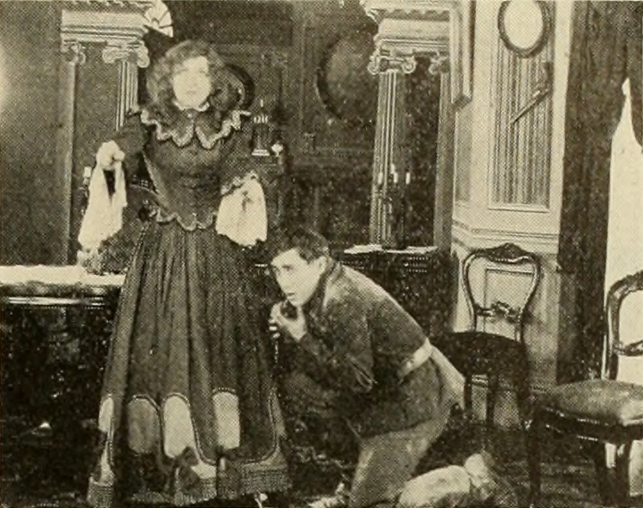 The Defender of the Name (1912), directed by Stanner E. V. Taylor, produced by his wife Marion Leonard, who plays the sister. Film still with Marion Leonard and Graham Velsey in uniform, before he starts his espionage mission.